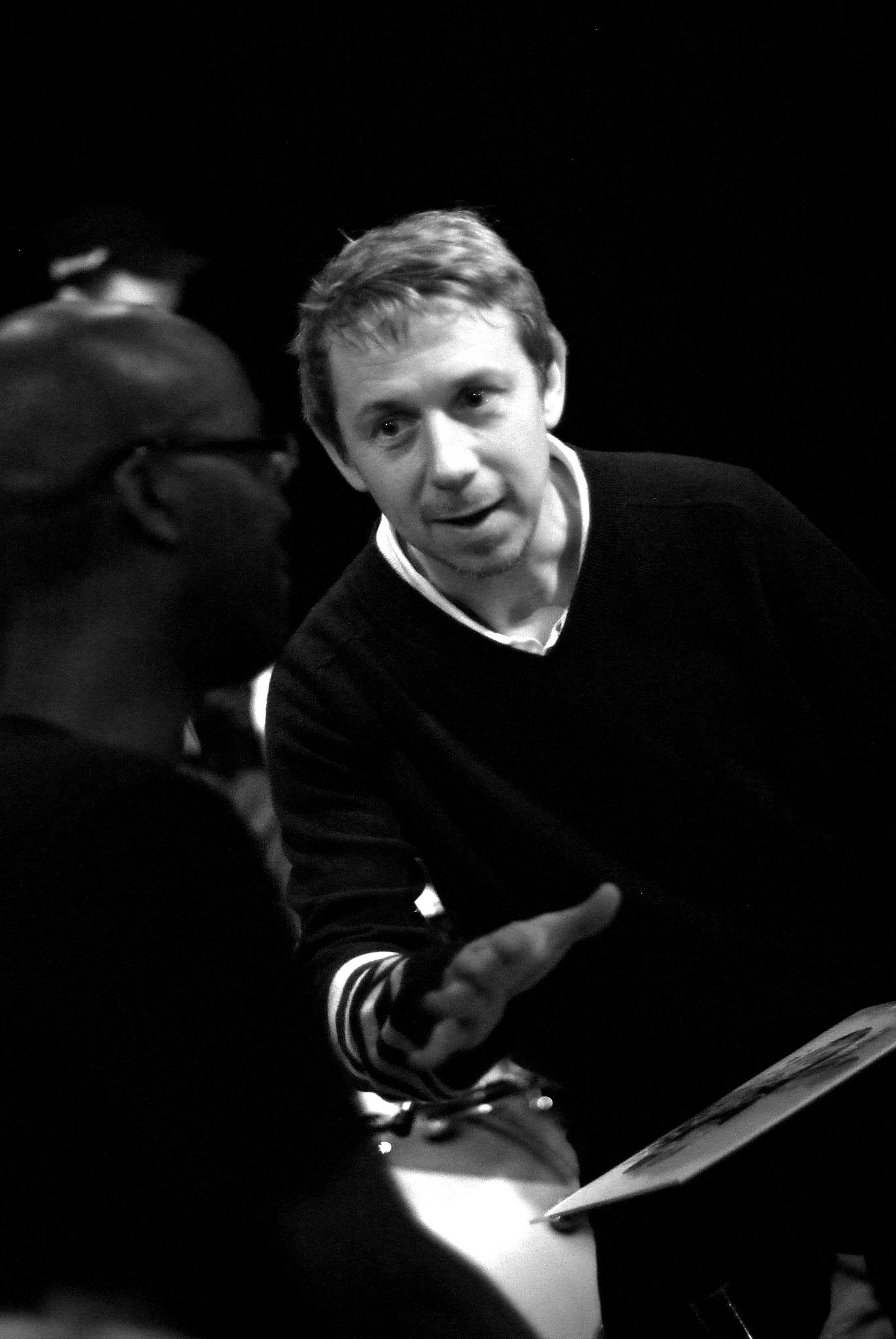 Pianist Robert Mitchell and Gilles Peterson